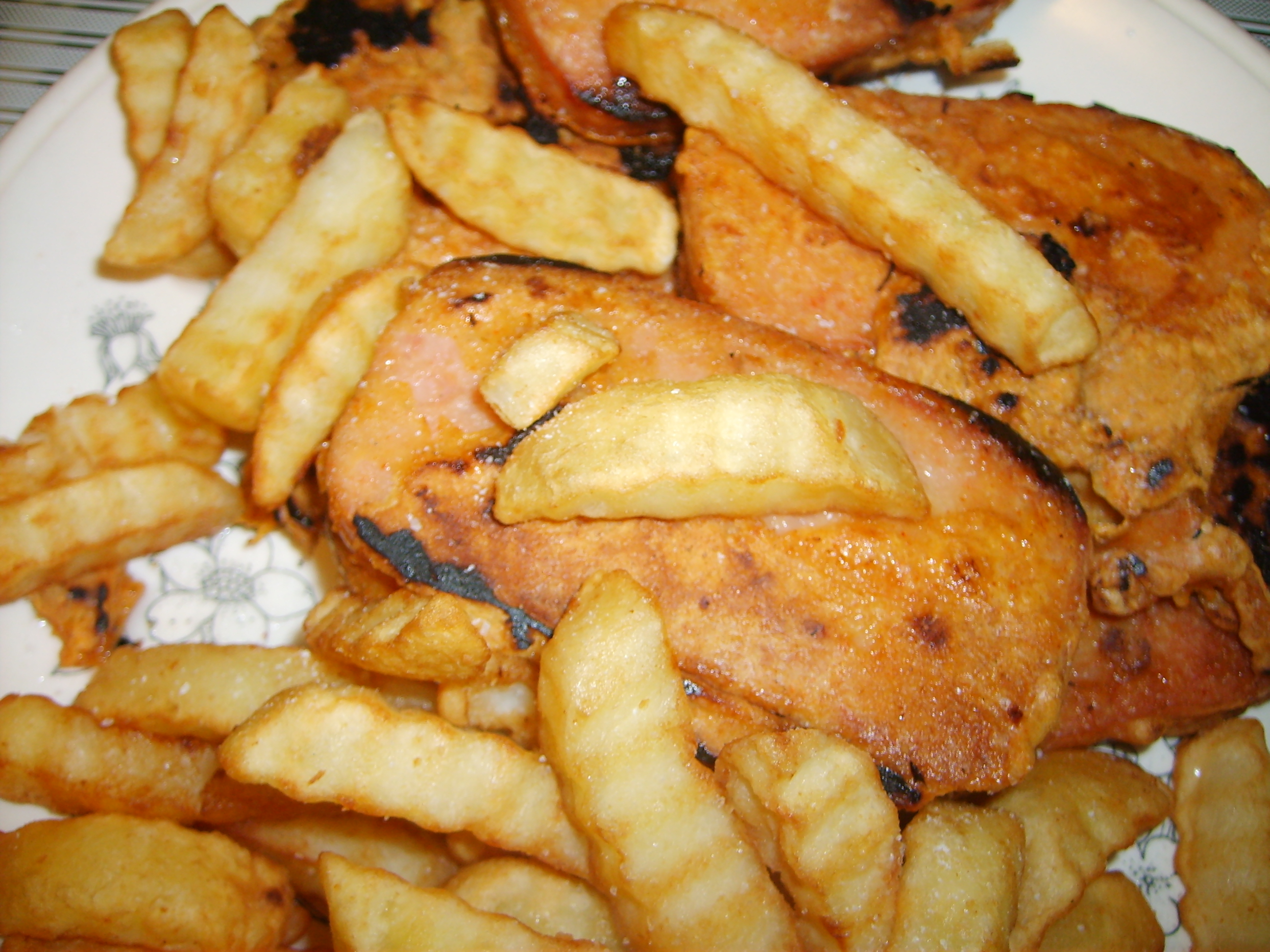 Spam fritters and chips